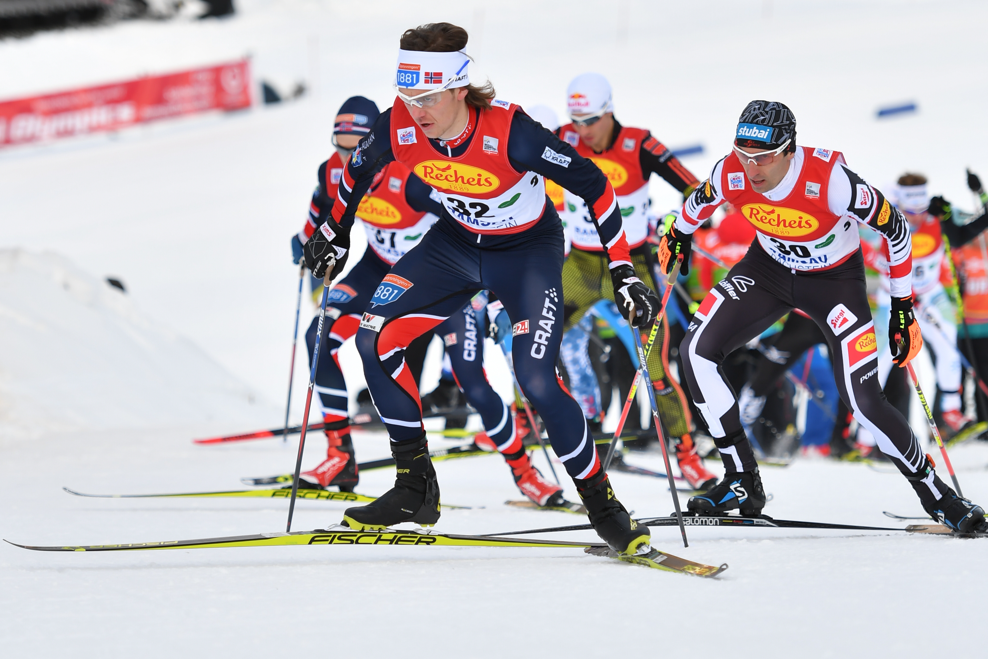 FIS World Cup Nordic Combined, Ramsau/Austria, 2016-12-16 to 2016-12-18.